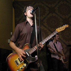 The Hot Snakes performing at the North Star Bar in Philadelphia on October 7, 2005. Showing members Rick Froberg (center) and Gar Wood (right).